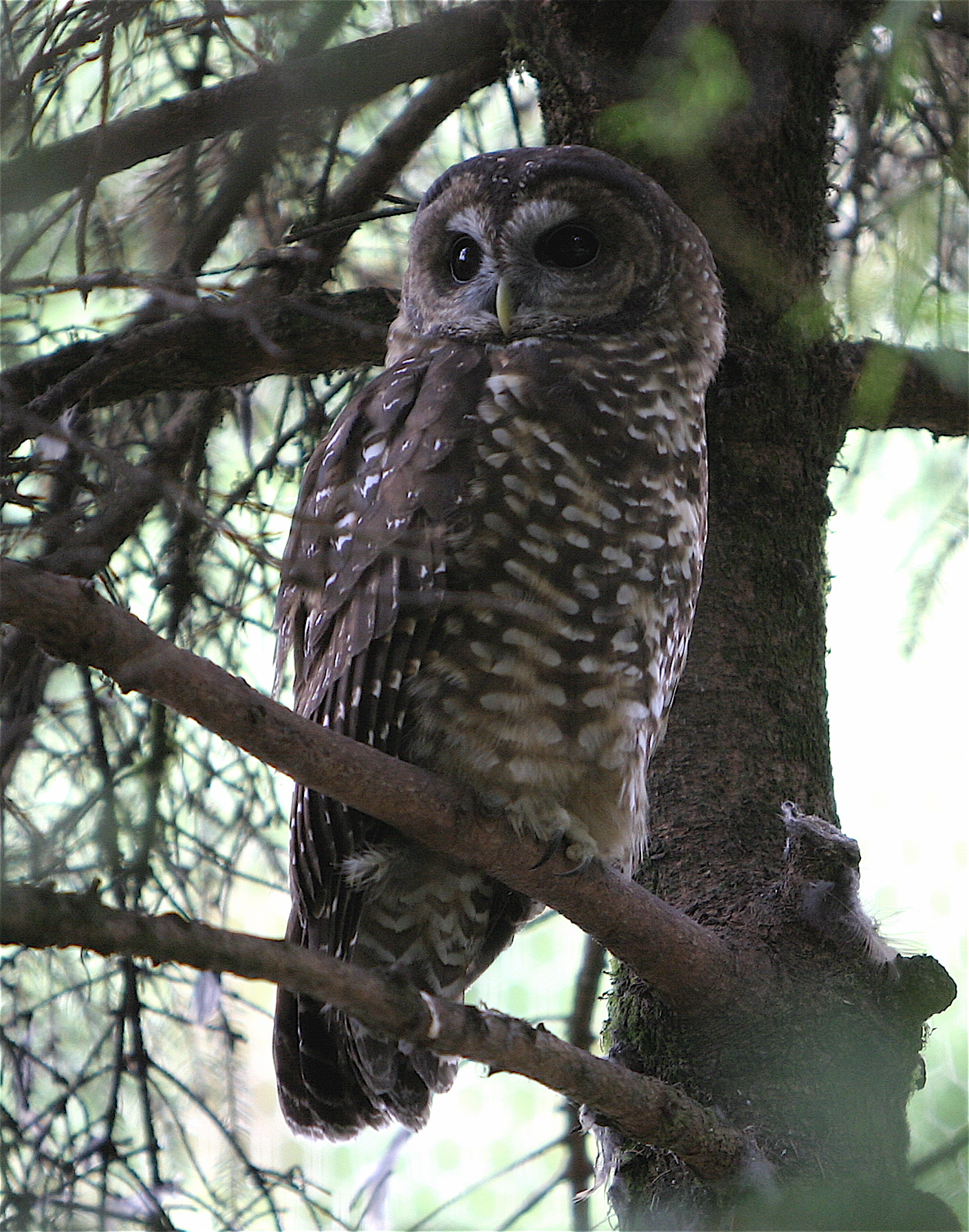 Northern Spotted Owl (Strix occidentalis caurina) at the Oregon Zoo